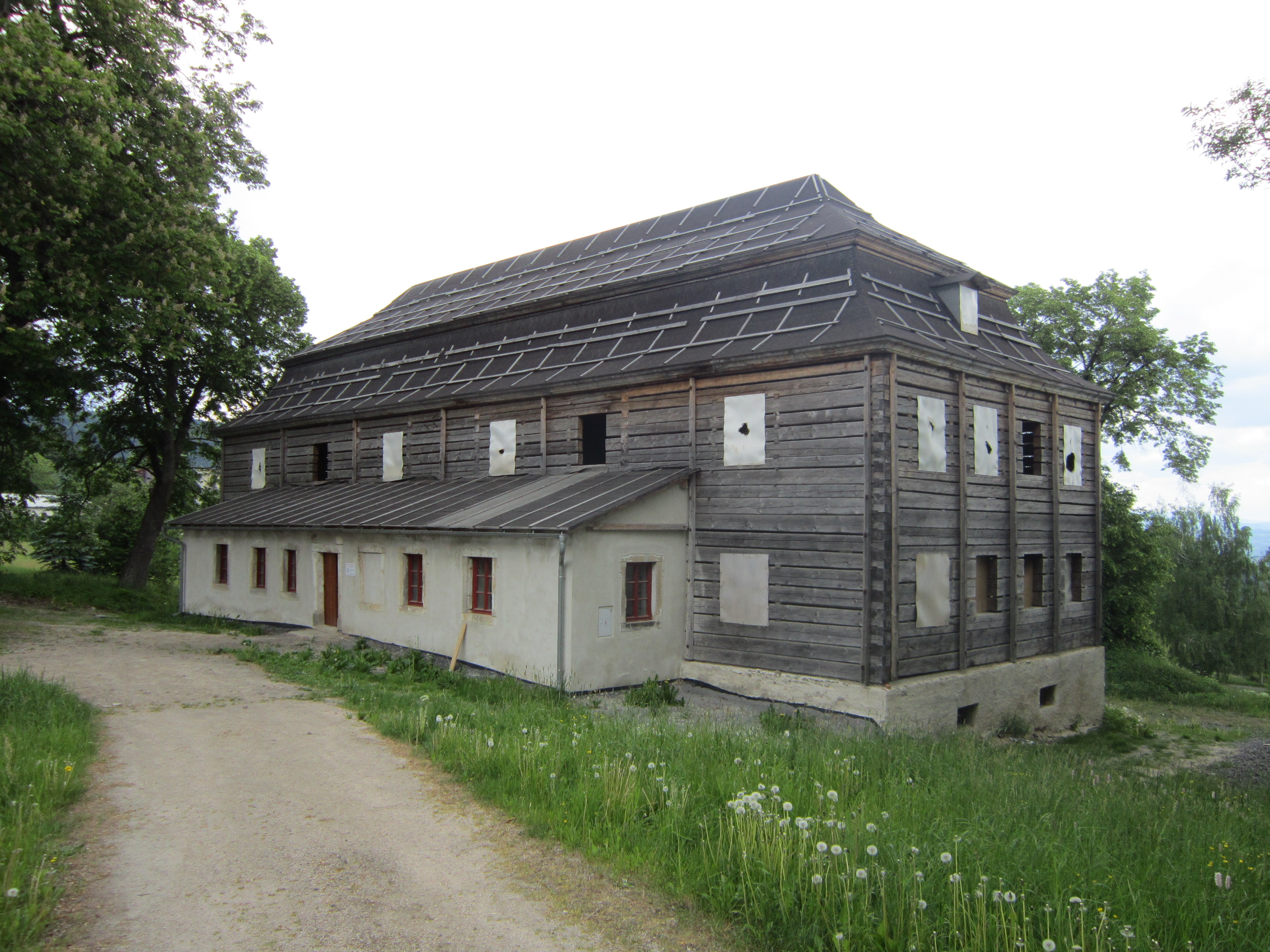 Rural homestead "Kittel house" in Jistebsko, part of Pěnčín, Liberec region